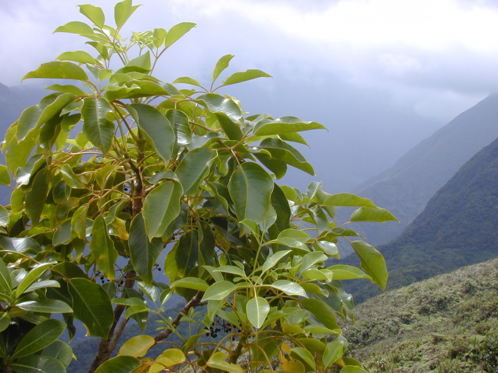 Cheirodendron trigynum (habit). Location: Maui, Waihee Ridge Trail